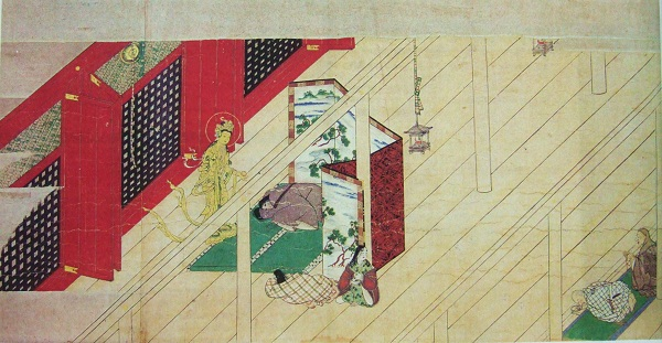 The wife of Fujiwara no Kuniyoshi at the Ishiyamadera.